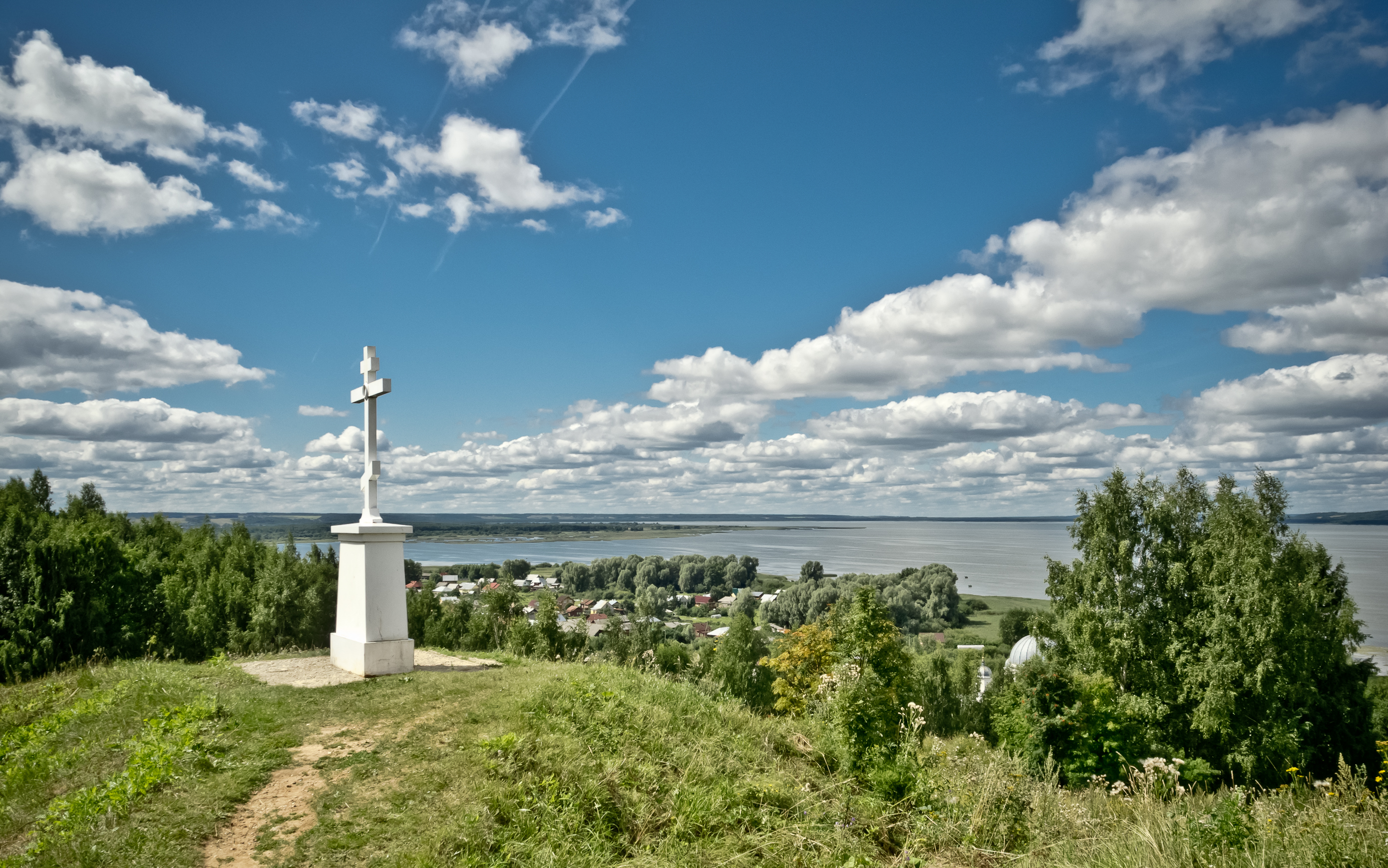 Worship cross on Balchug hill in Galich, Russia